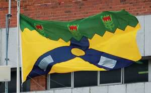 Can someone please modify this to a nicer flag drawing, i don't have the time.